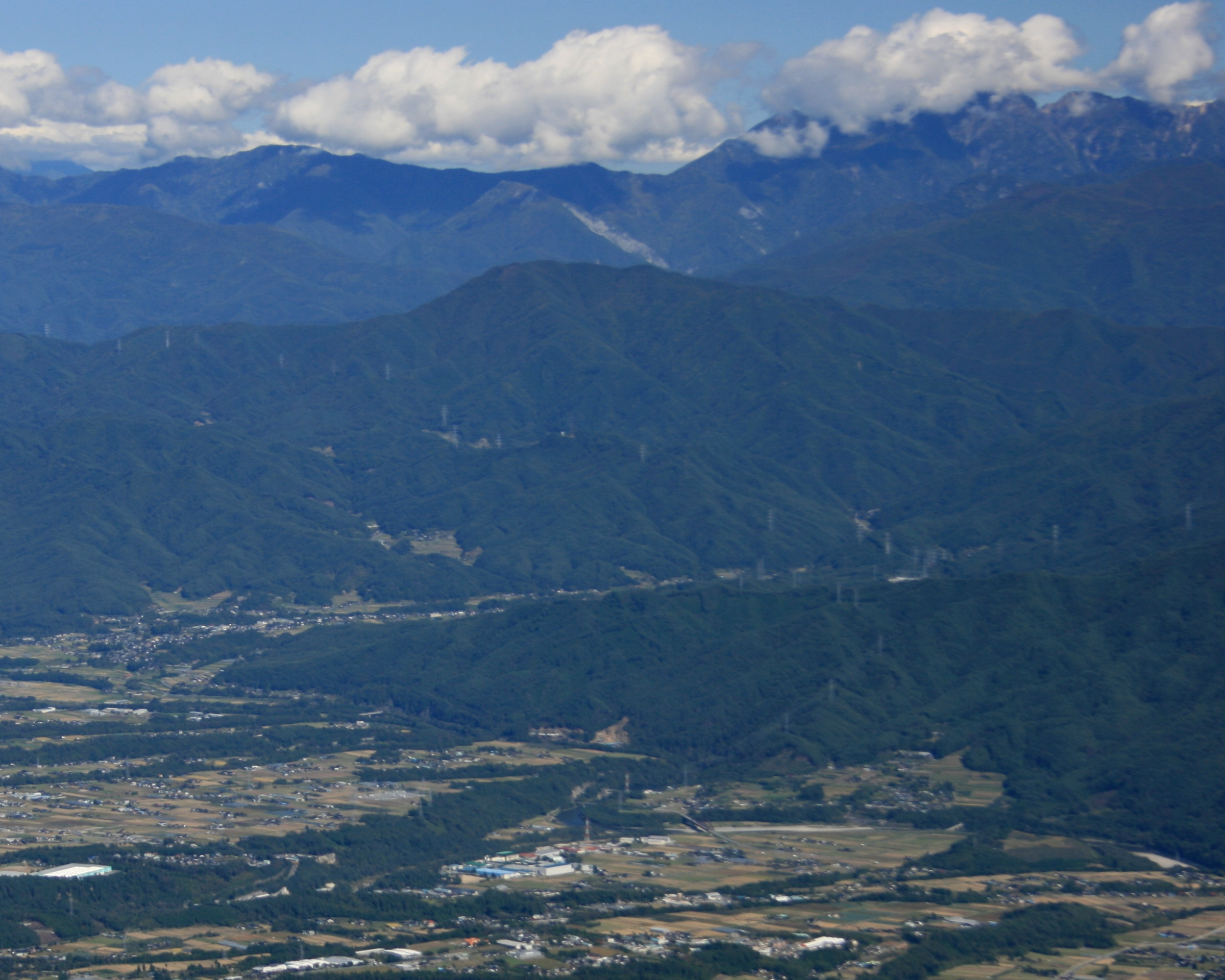 Mount Tokura of Ina Mountains seen from Mount Eboshi of Kiso Mountains in Nagano prefecture, Japan.